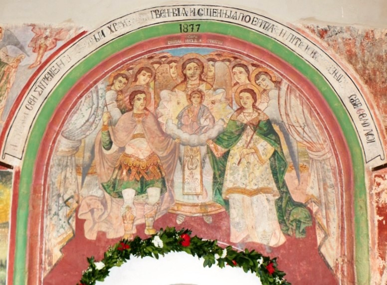 Fresco in St Michael and Gabriel Church in Akrino (Lovcha), Greece